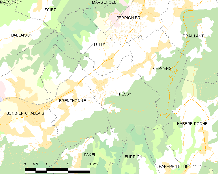 Map of French municipality Fessy